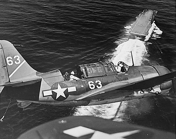 Two U.S. Navy Curtiss SB2C-1C Helldiver dive bombers of Bombing Squadron 1 (VB-1) in the landing circle of the aircraft carrier USS Yorktown (CV-10) in July 1944.